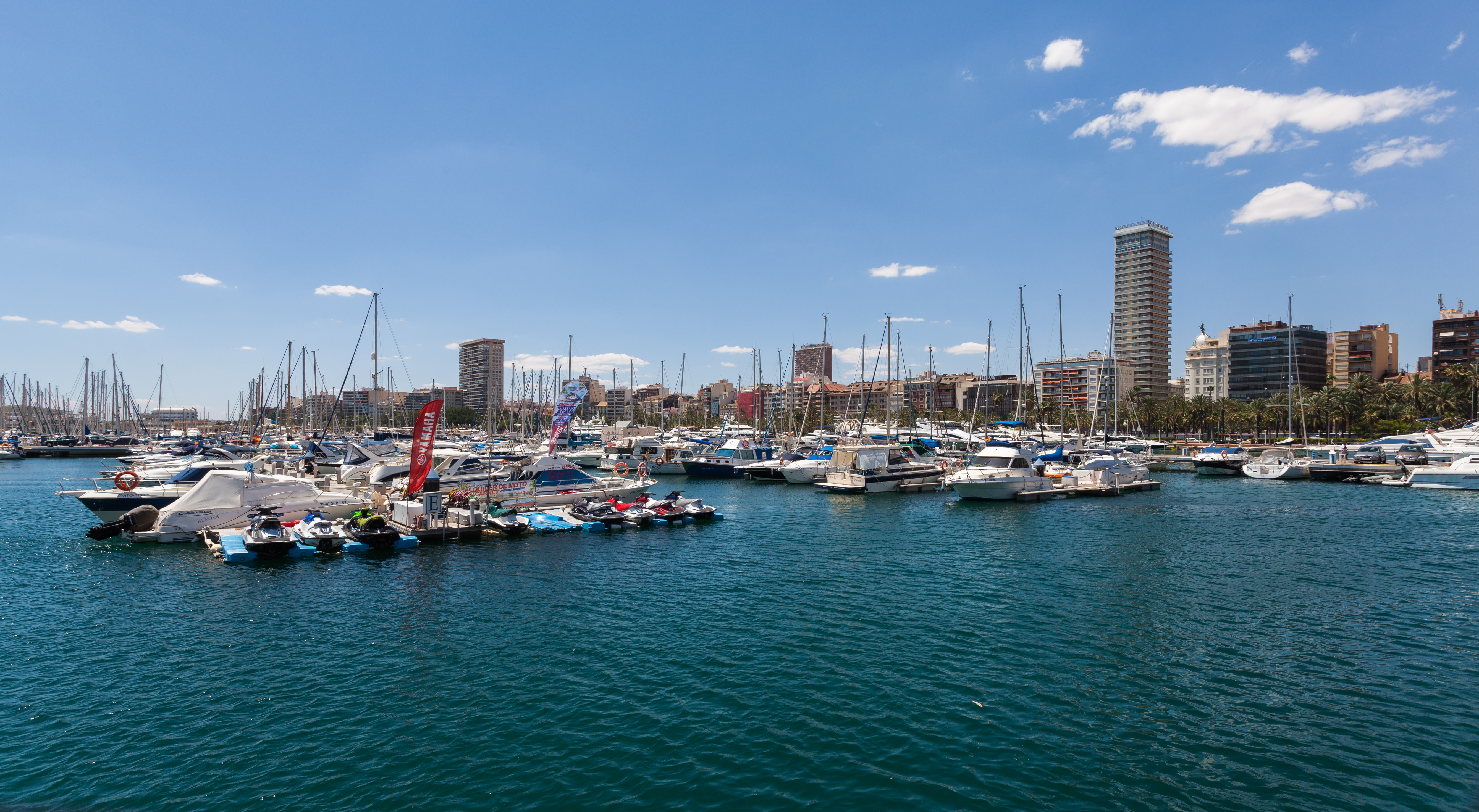 Port of Alicante, Spain